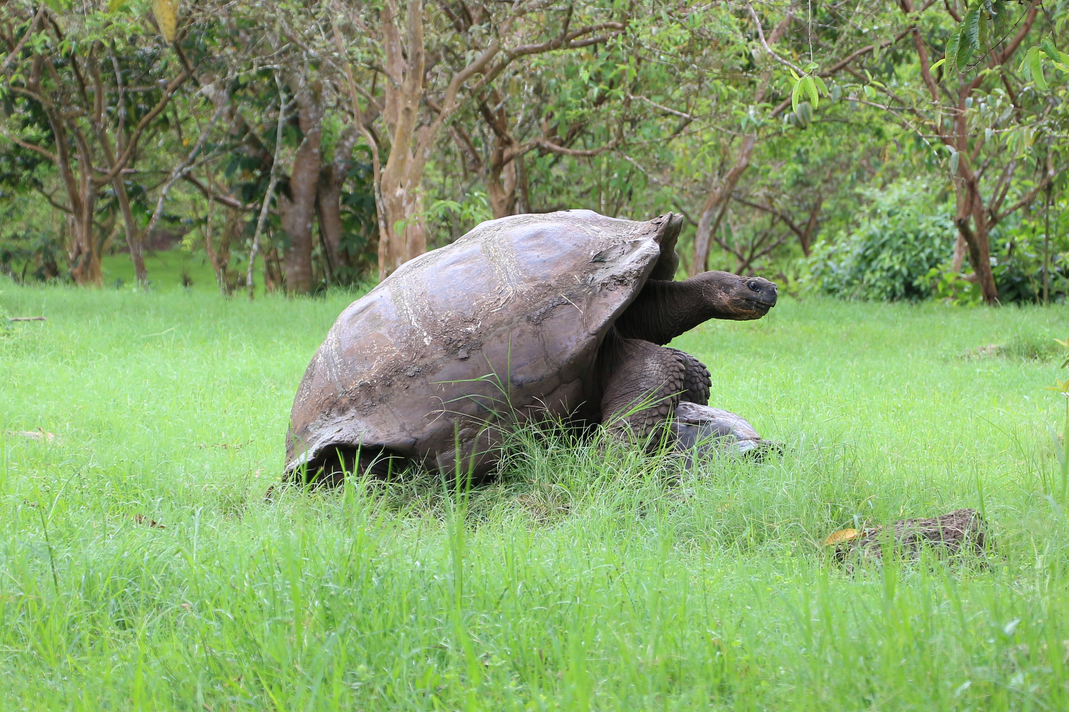 Santa Cruz giant tortoises (Chelonoidis porteri) mating in Santa Cruz Island, Galápagos National Park, Ecuador